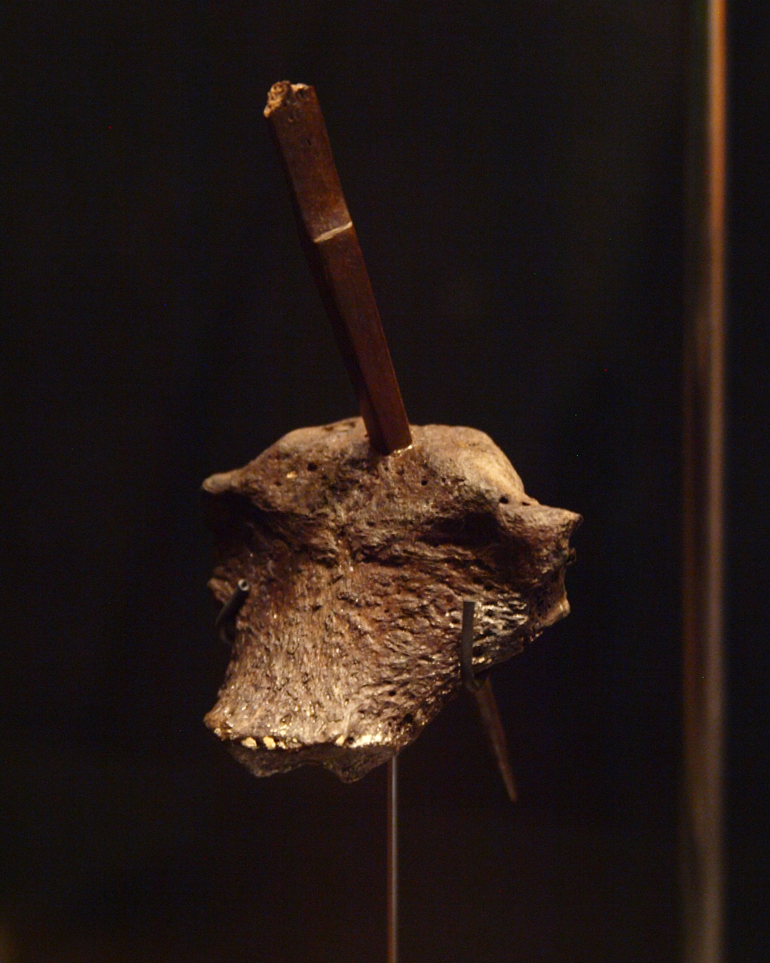 Upper breast bone with arrwo head of Porsmose Man, a neolithinc bog body found in 1946 near Næstved, Seeland, Denmark.